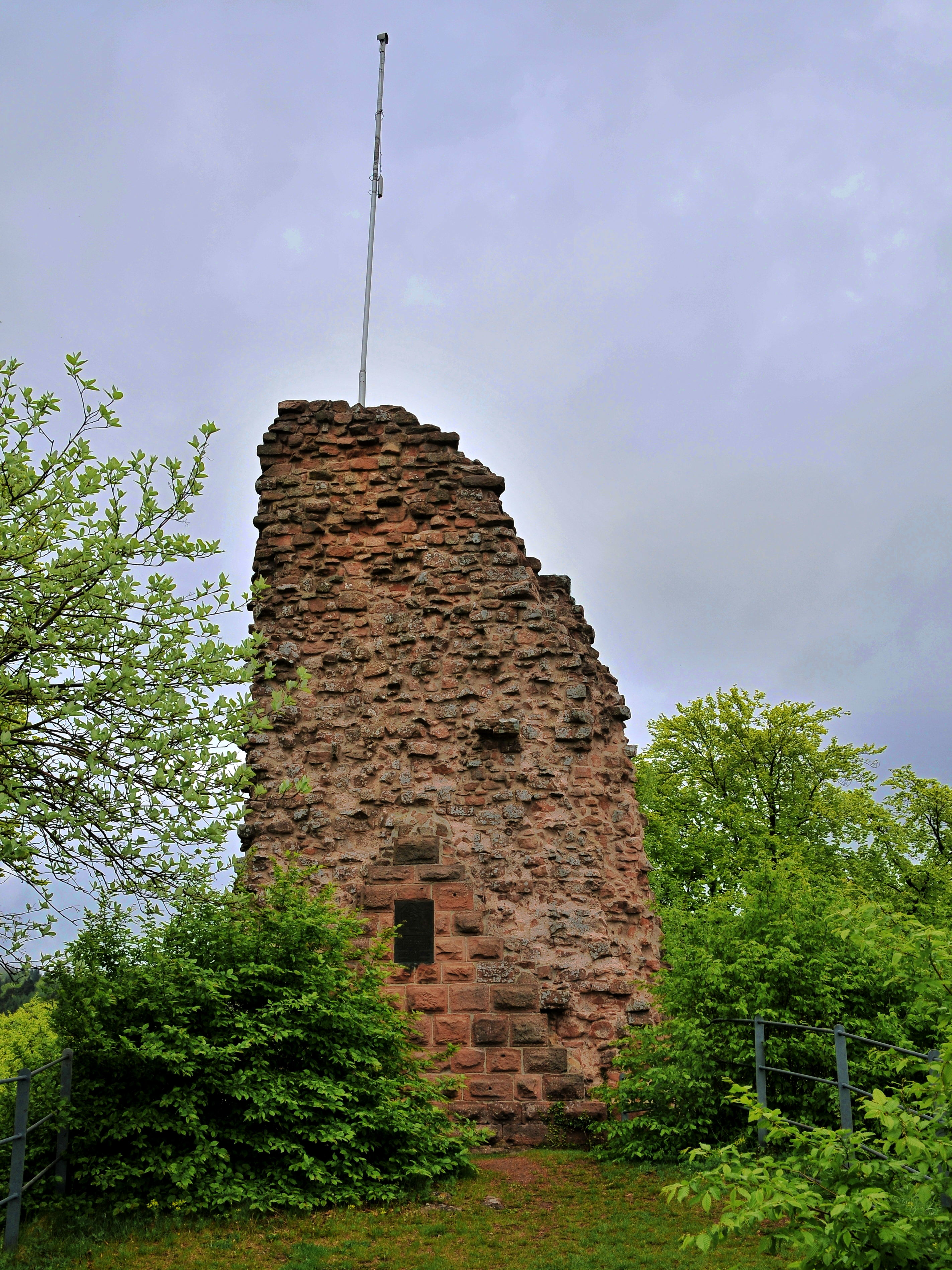 Ruins of the Keep of Guttenberg Castle